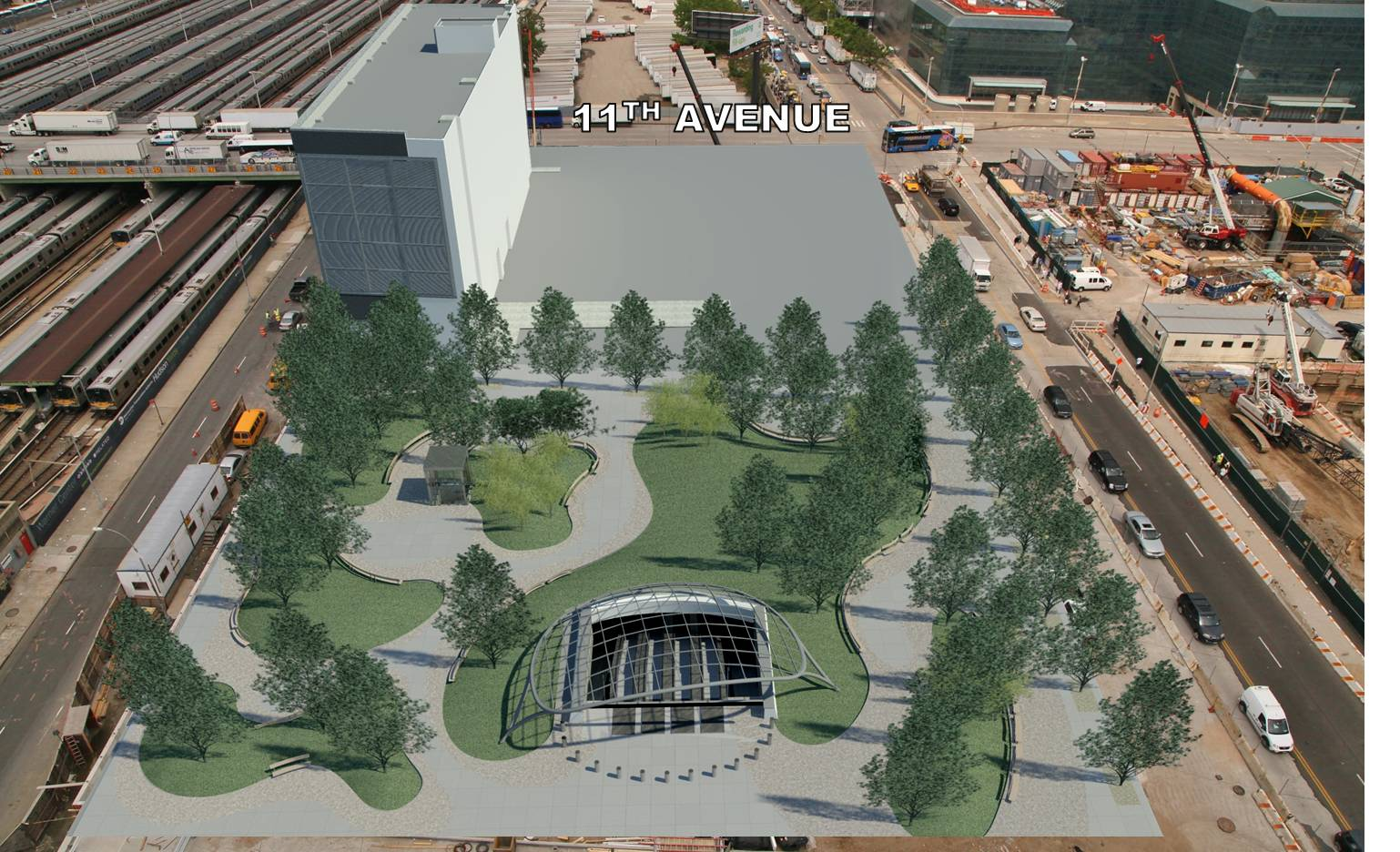 Photos and renderings, looking west, illustrate the progress under way on the No. 7 extension project. This image shows the location of the future station at 34th Street and Eleventh Avenue. Image: MTA Capital Construction